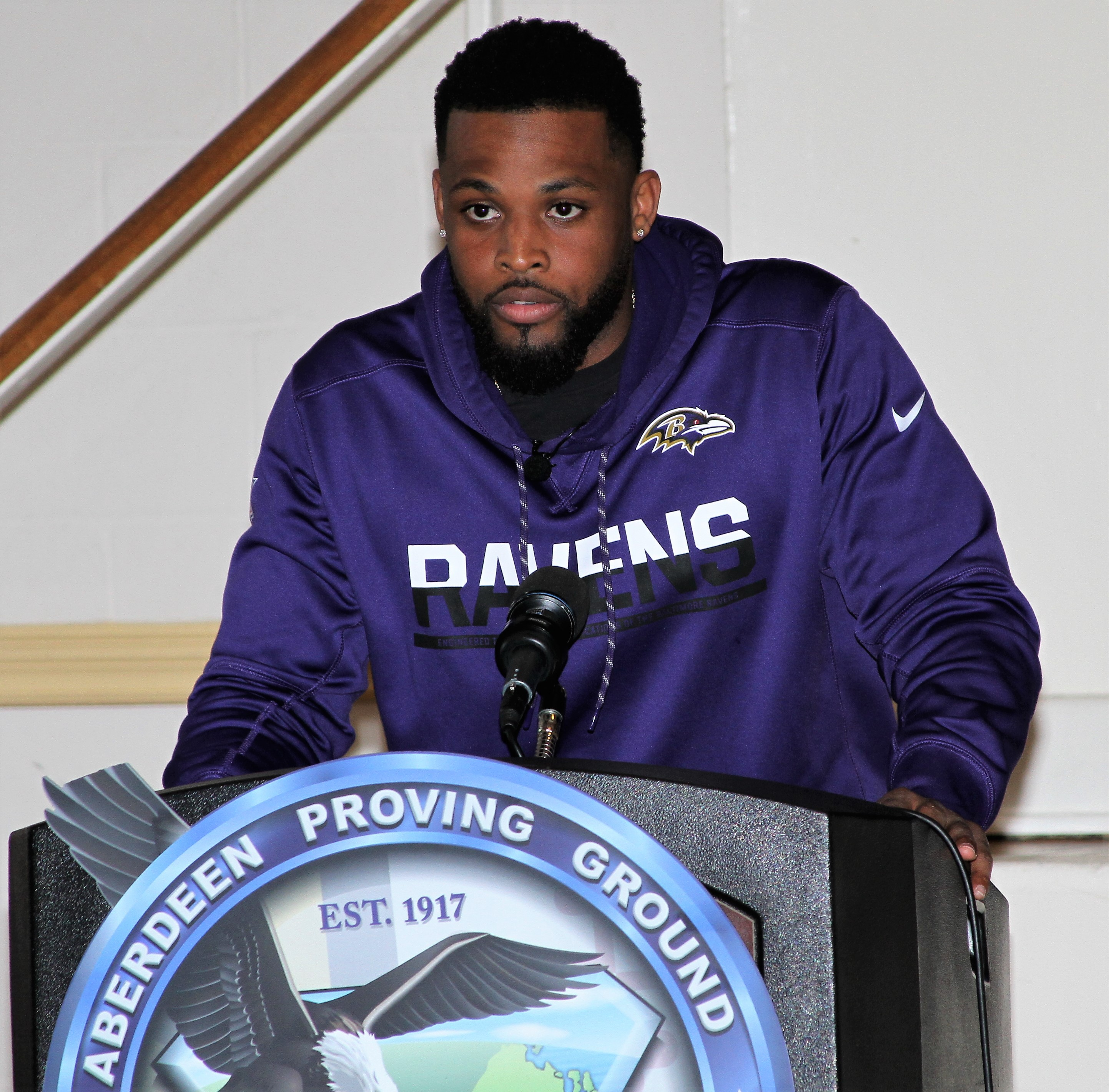 Accentuating the courage and resilience of military children, the APG Morale, Welfare & Recreations’ Child & Youth Service, hosted the Military Child Education Coalition’s Tell Me A Story event at the APG North (Aberdeen) recreation center, March 28. Dozens of children and parents attended the salute that is traditionally observed during April, the Month of the Military Child. Guests included Baltimore Ravens linebacker Anthony Levine Sr., founder of the 4Every1Foundation, and Suzie Schwartz, a longtime military family advocate and the wife of retired U.S. Air Force Gen. Norton Schwartz, former USAF chief of staff.